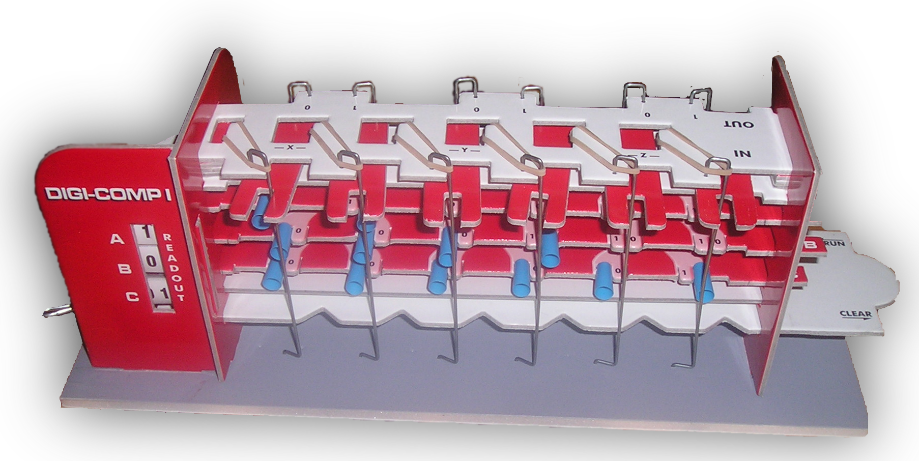 A front view of the Digi-Comp I mechanical computer toy. This is the modern cardboard version - there was an earlier version made from polystyrene.